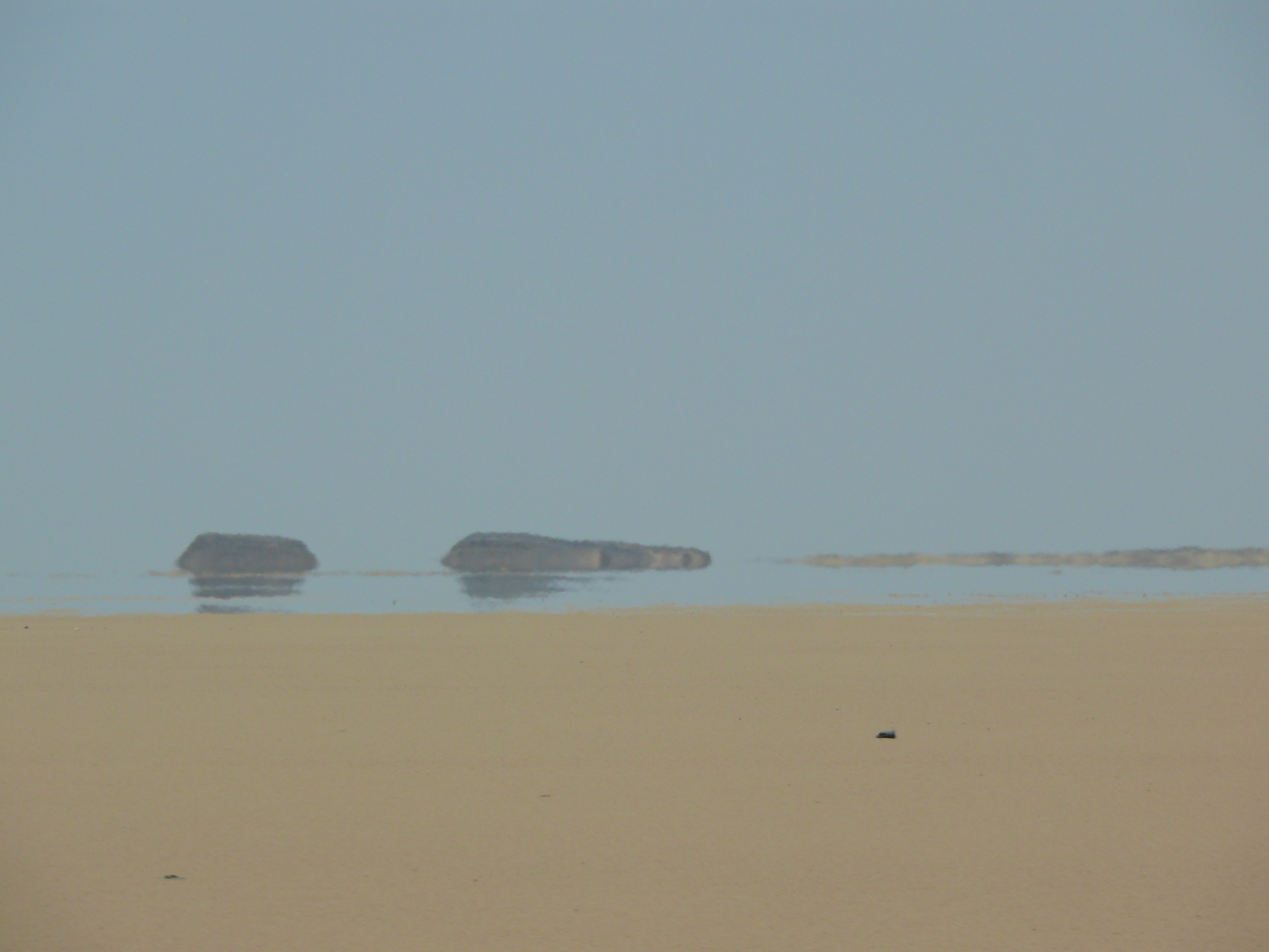 Mirage as seen from the road between Abu Simbel and Aswan.